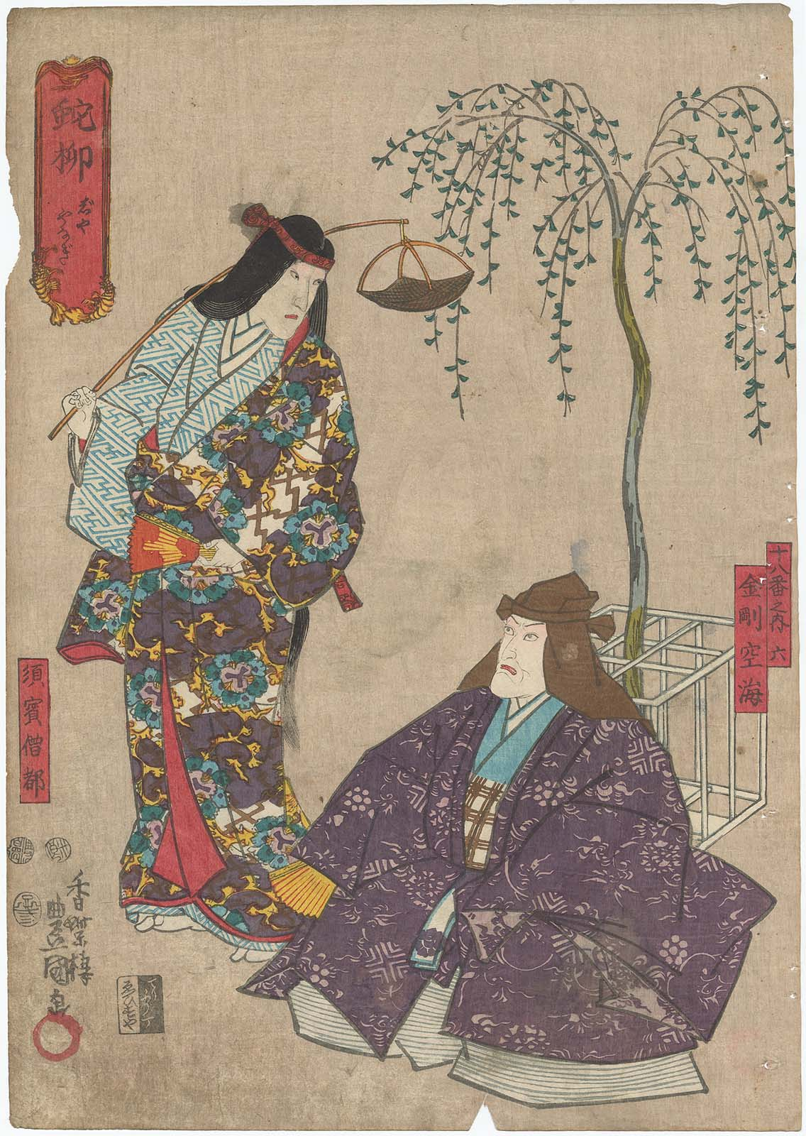 Part of the series The Eighteen Great Kabuki Plays, No. 06